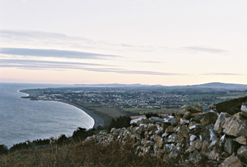 Greystones, viewed from the North